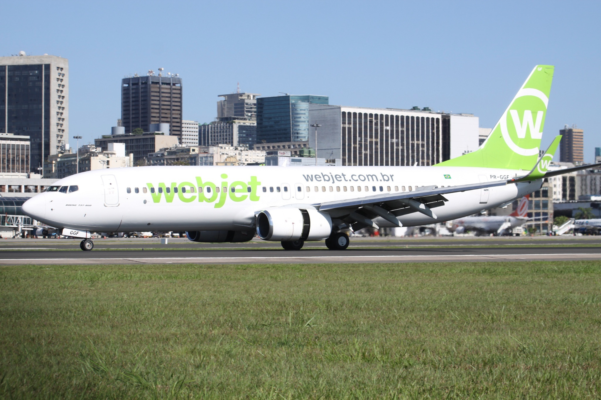 At Santos Dumont